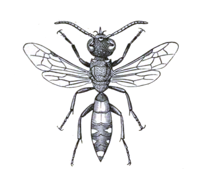 Sapygidae